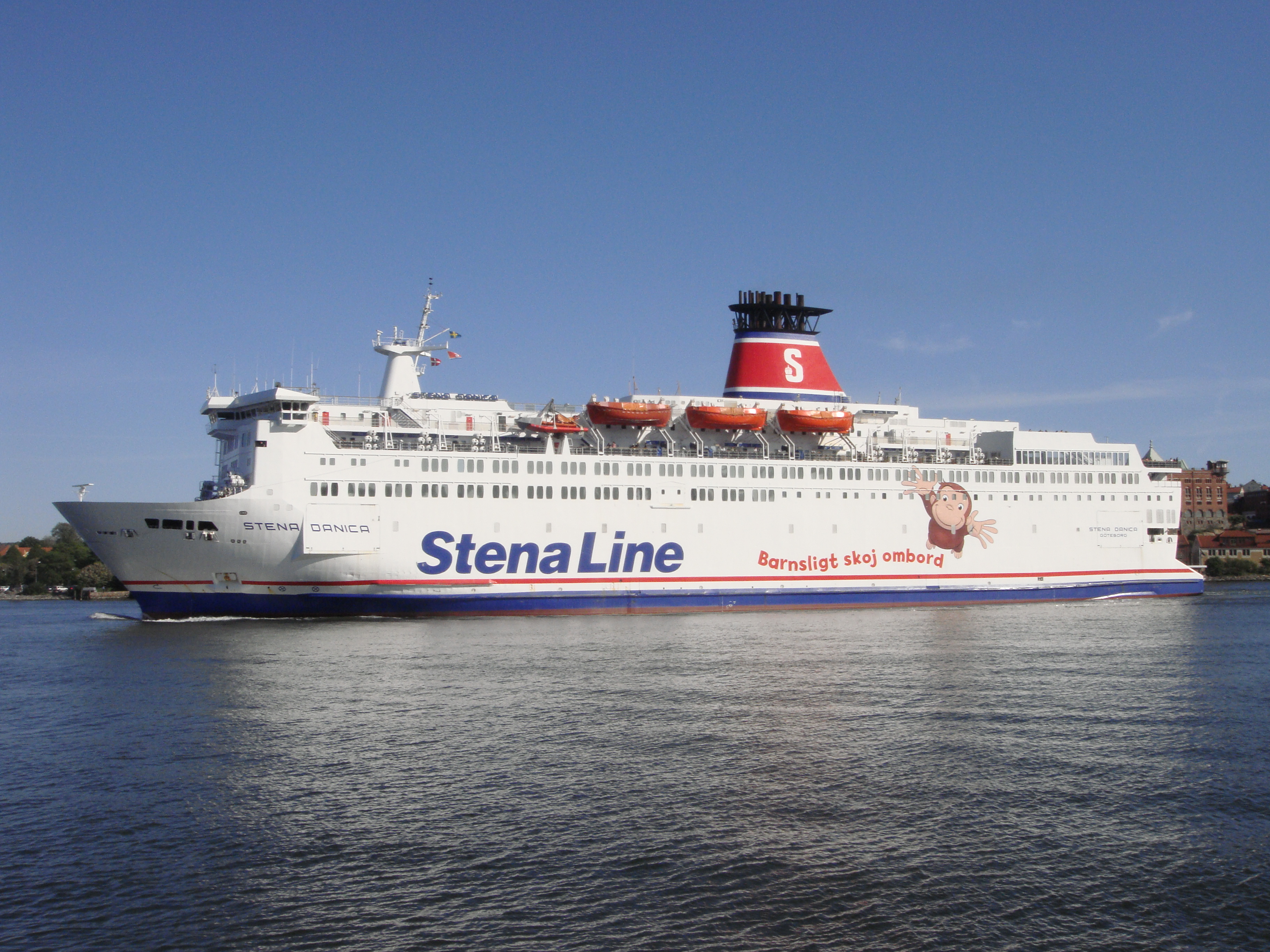 M/S Stena Danica inbound for Gothenburg Information about Stena Danica may be found at IMO 7907245.A ship can change name and flag state through time, but the IMO number remains the same through the hull's entire lifetime. As a result, it can be useful to identify a ship by using the IMO number.